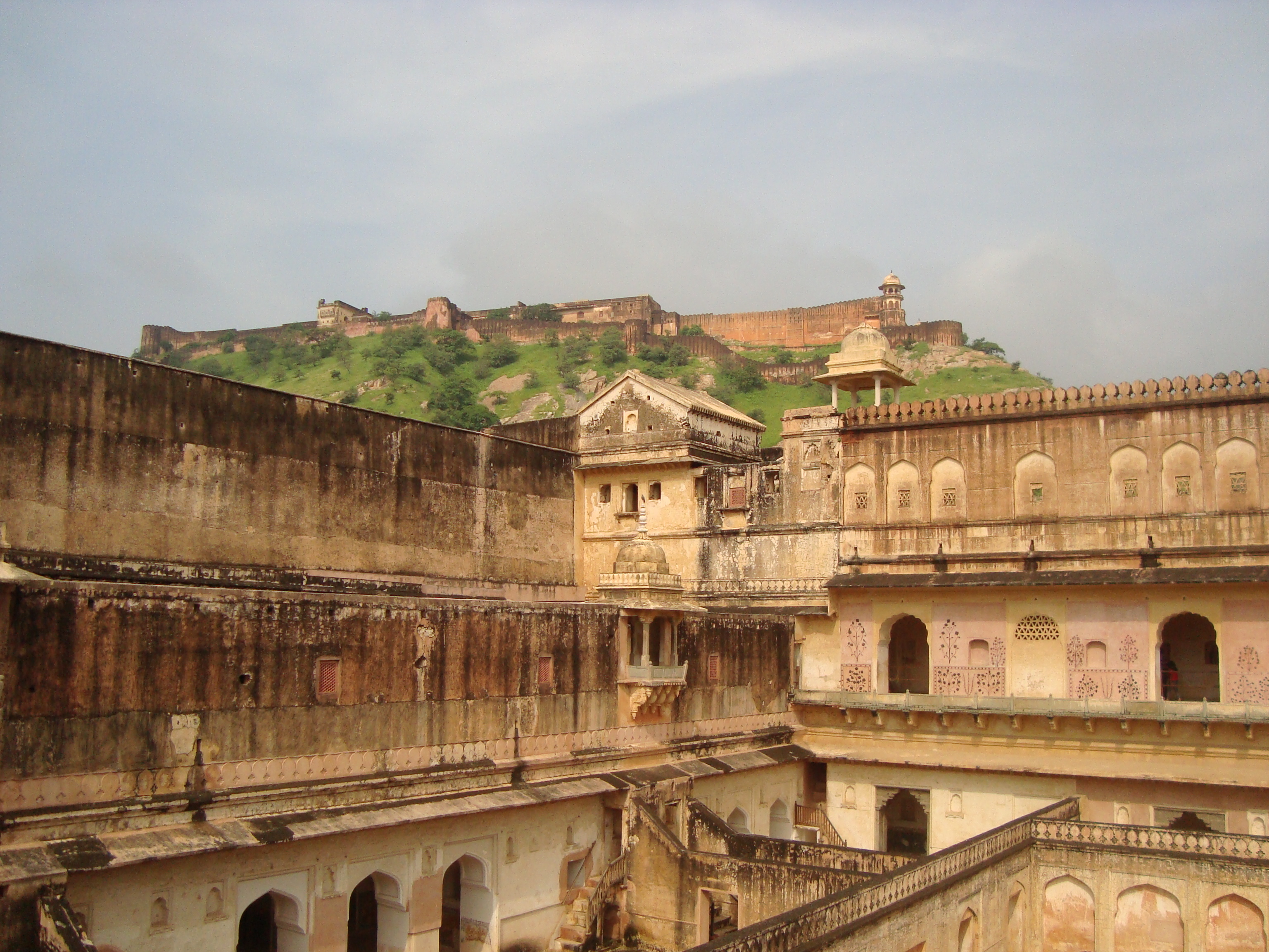 A view inside the Man Singh Palace, the oldest palace in Amber fort complex. Jaigarh Fort can be seen in the background.